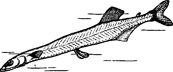 Salangichthys microdon, Japanese icefish